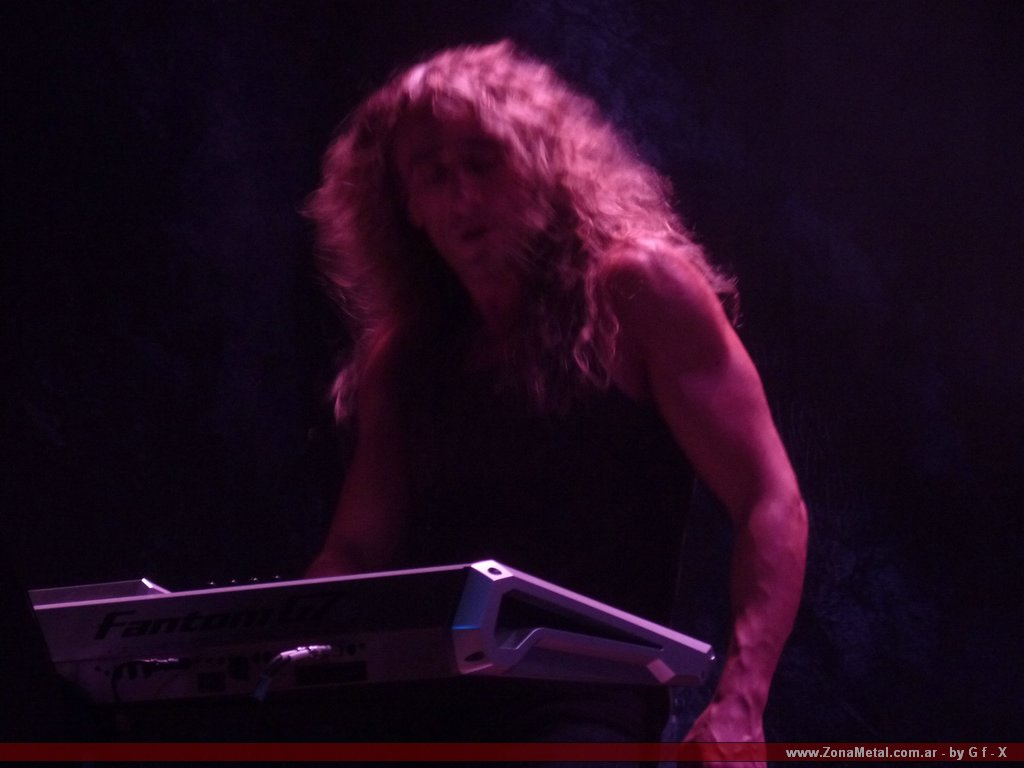 Alex Staropoli, from Rhapsody of Fire, performing at Teatro de Flores venue, in Buenos Aires, Argentina in December 2010.